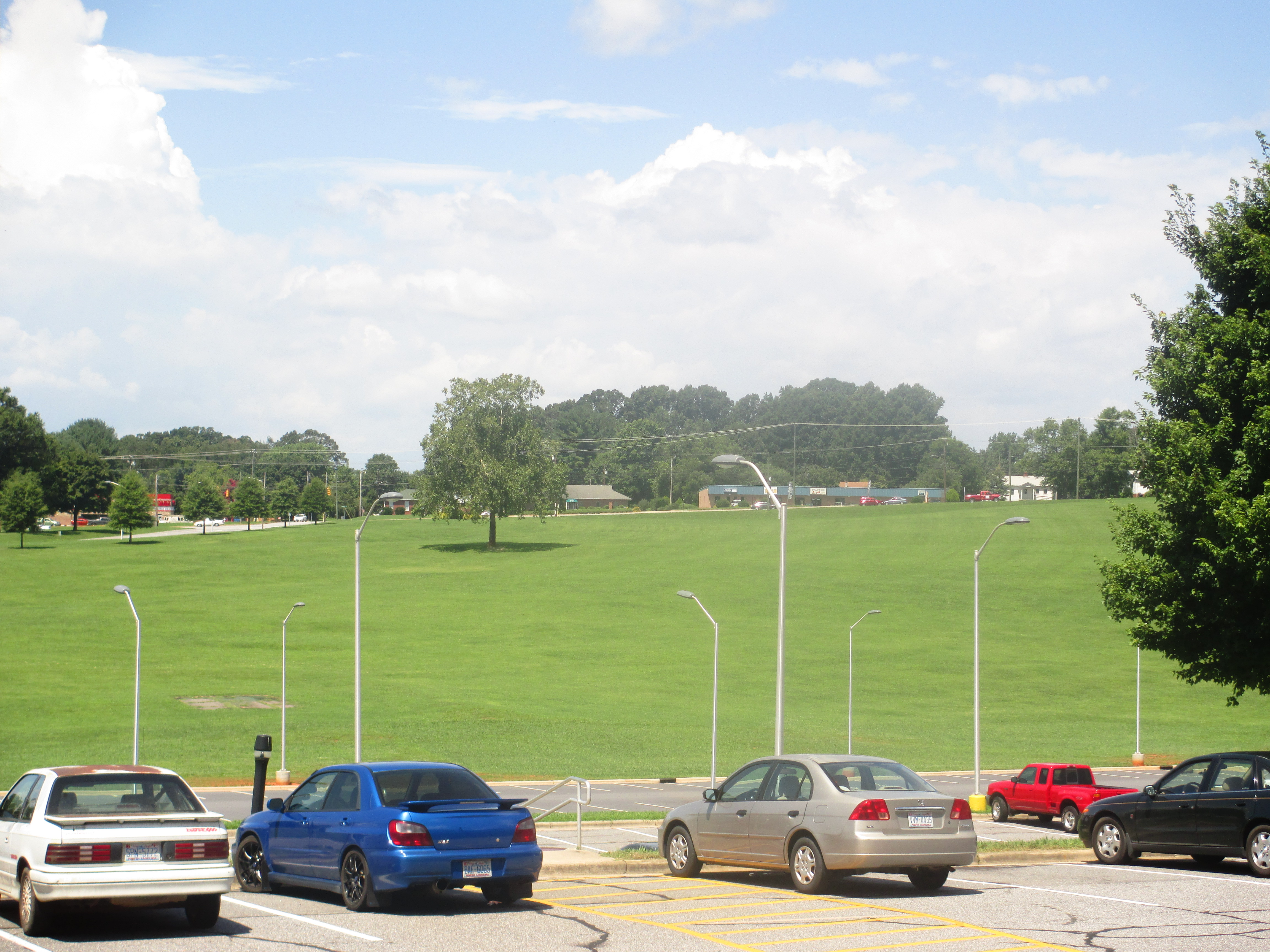 I took photo of WPCC lawn in Morganton, NC, with Canon camera.